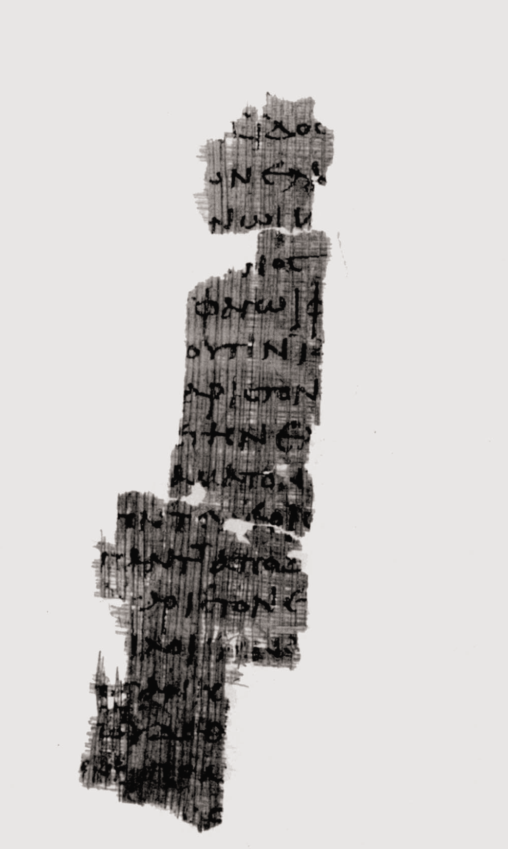 This is one of the two papyrus fragments of Theognis. It contains the verses 917-933 (Bekker's numbering)